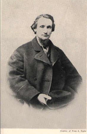 Picture of Christopher Miner Spencer